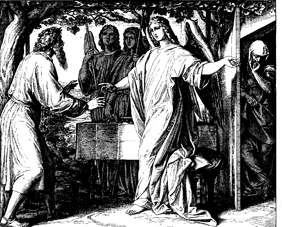 Woodcut for "Die Bibel in Bildern", 1860.